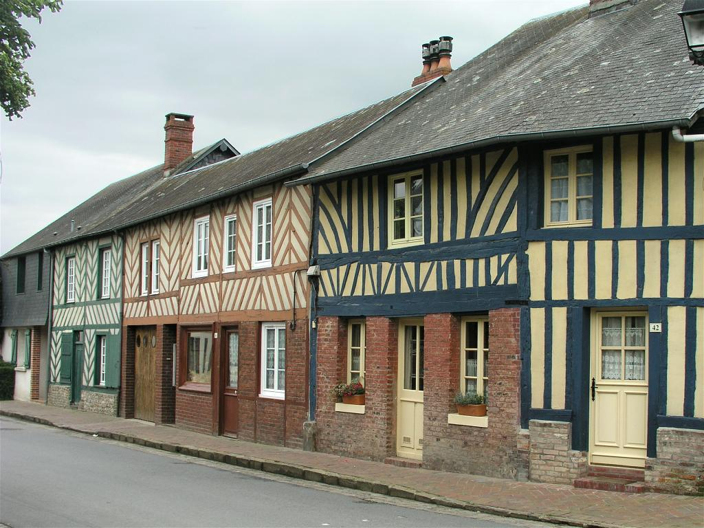 Timber-framed house in Blangy-le-Chateau, Normandie, France, photo 2007